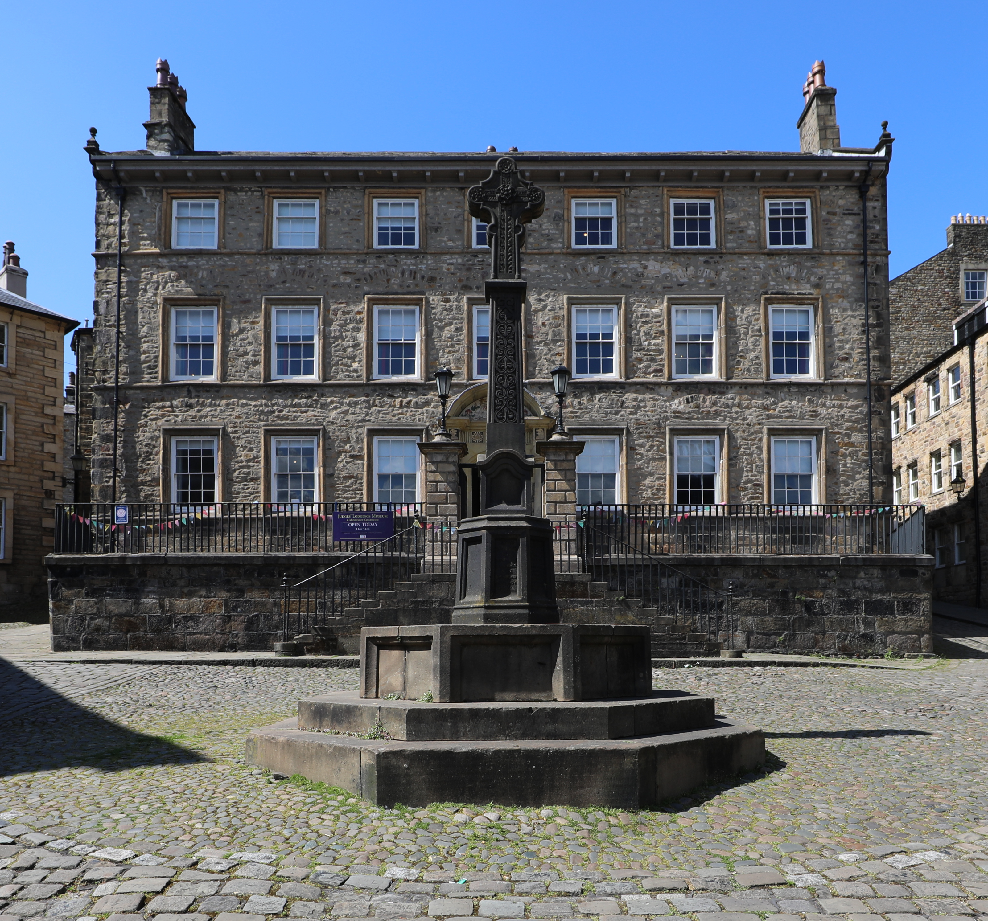 Photo of the front of Judges Lodgings in Lancaster